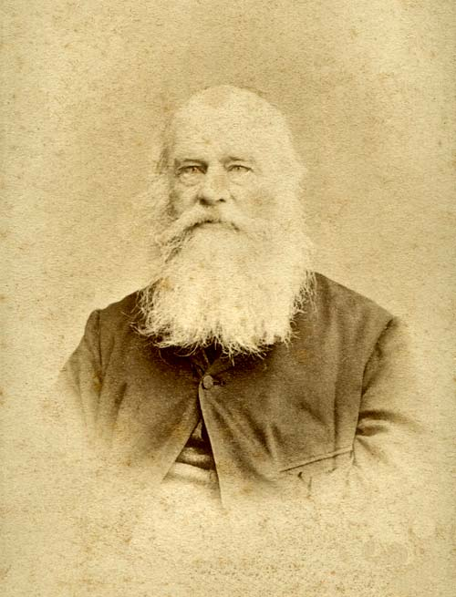 New Zealand Exclusive Plymouth Brethren clergyman James George Deck late in life, with the splendid white beard for which he was well known.